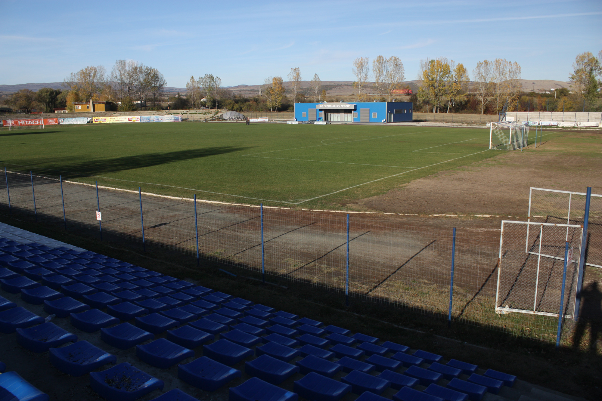 Slivnitsa Town Stadim "Slivnitsa Hero"